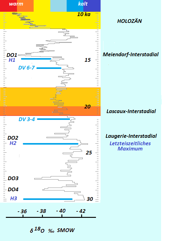 Diagram showing the position of the Lascaux interstadial (marked in red and orange) within the time range 10 to 30 ky BP. The δ18O values from GISP-2 follow the diagram of Wolfgang Weißmüller. The positions of the Dansgaard-Oeschger events DO1 to DO4 and the Heinrich events H1 to H3 are also indicated. DV 3-4 and DV 6-7 are cold events marked by ice wedges in the upper loess of Dolní Veštonice.